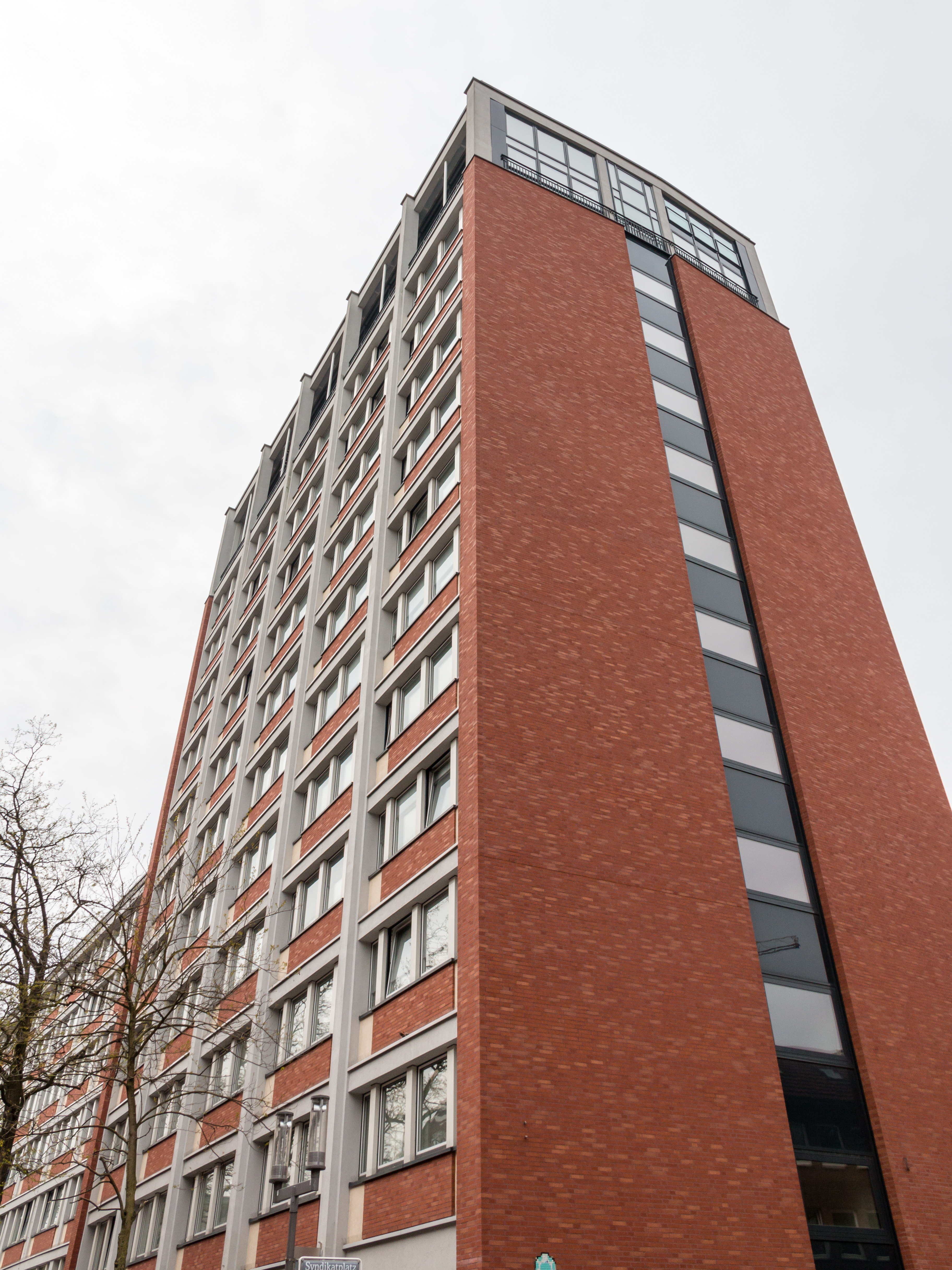 City hall (Stadthaus 1) in Münster, North Rhine-Westphalia, Germany